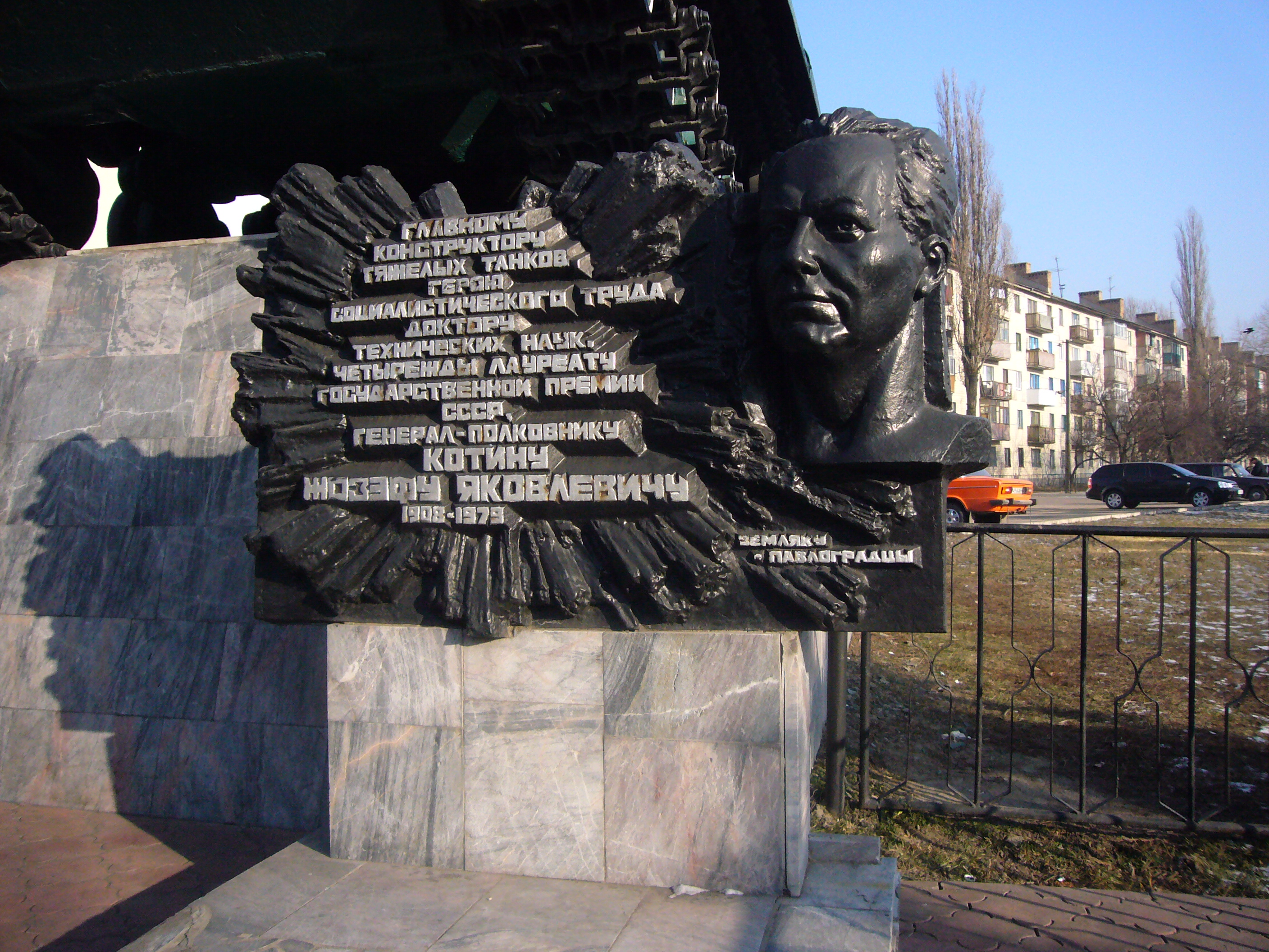 A Monument in memory of Zhozef Kotin (1908-1979), a Soviet constructor of heavy tanks. A detail. Pavlograd, Dnipropetrovsk Oblast, Ukraine.